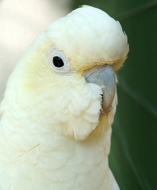 Philippine Cockatoo